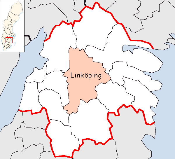 Linköping Municipality in Östergötland County Designed by me. Mere outlines are a PD source from